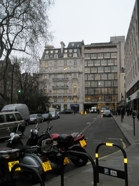 The eastern side of Hanover Square